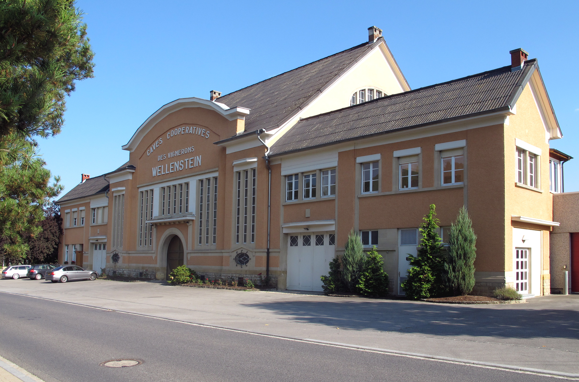 Caves Coopératives des Vignerons de Wellenstein, Luxembourg